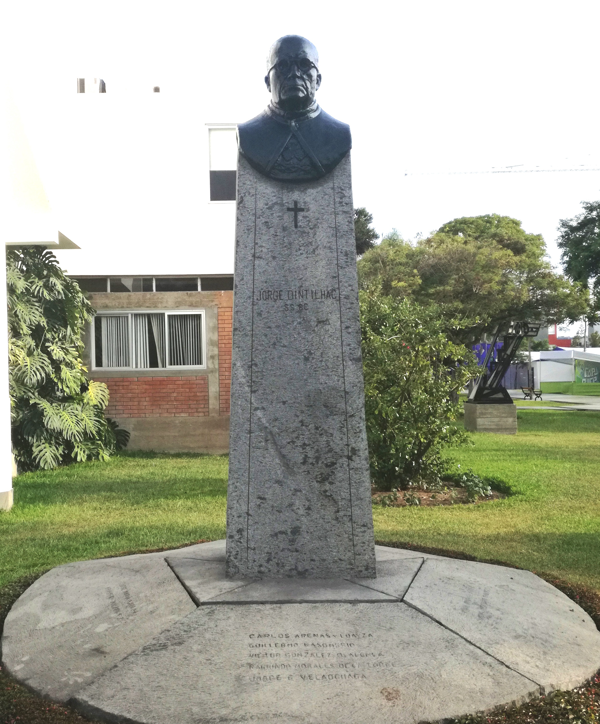 Bust of Jorge Dintilhac, founder of Pontifical Catholic University of Peru.